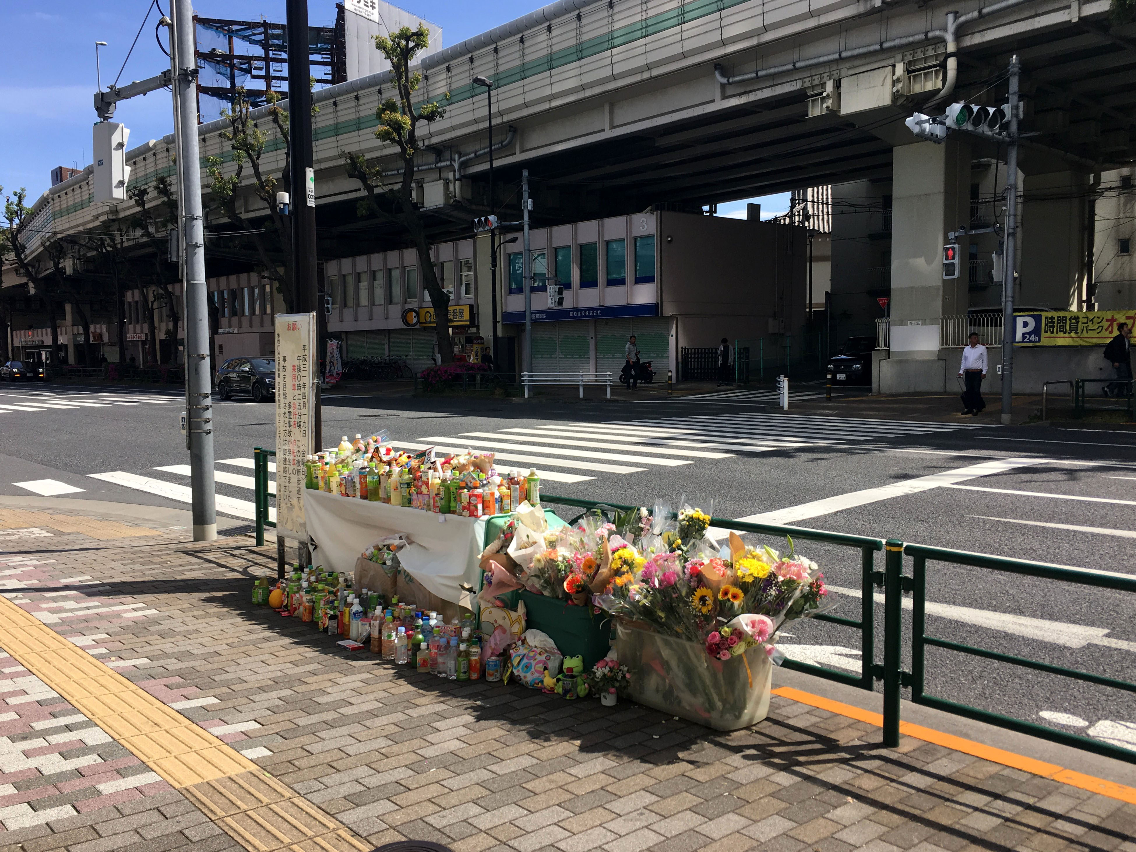 Flower offering at Higashi Ikebukuro in Tokyo where a mother and her daughter died by car accident on April 19, 2019.